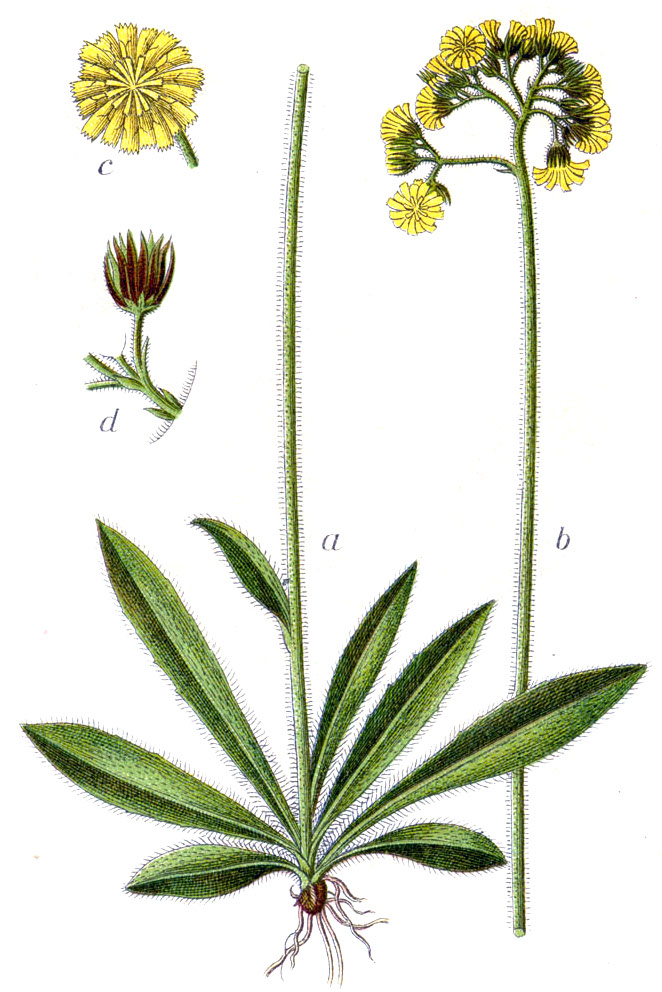 Hieracium cymosum L. Original Caption Nestler-Mauseohr, Hieracium cymosum